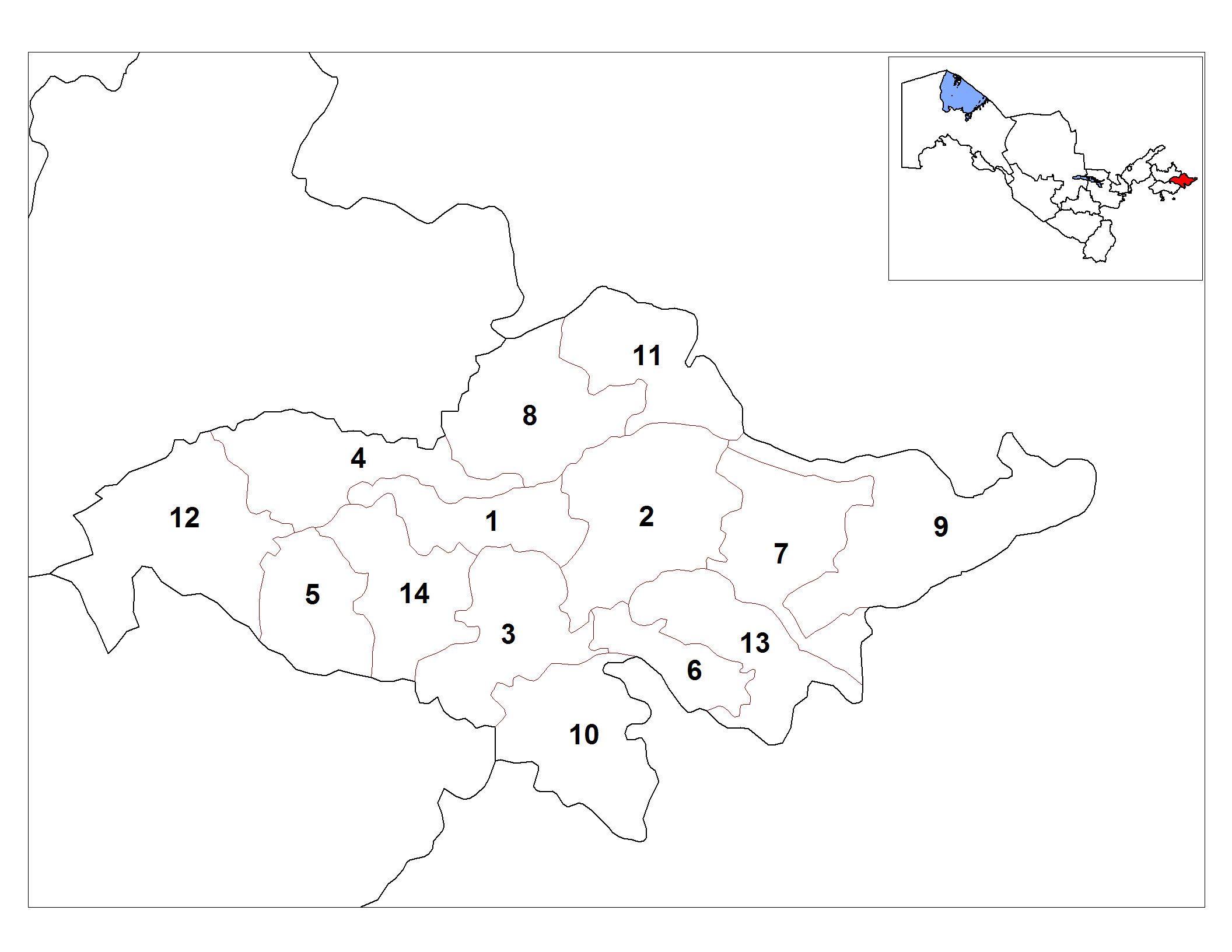 Map of the districts (tumans) of the province (viloyat) of Andijan in Uzbekistan.